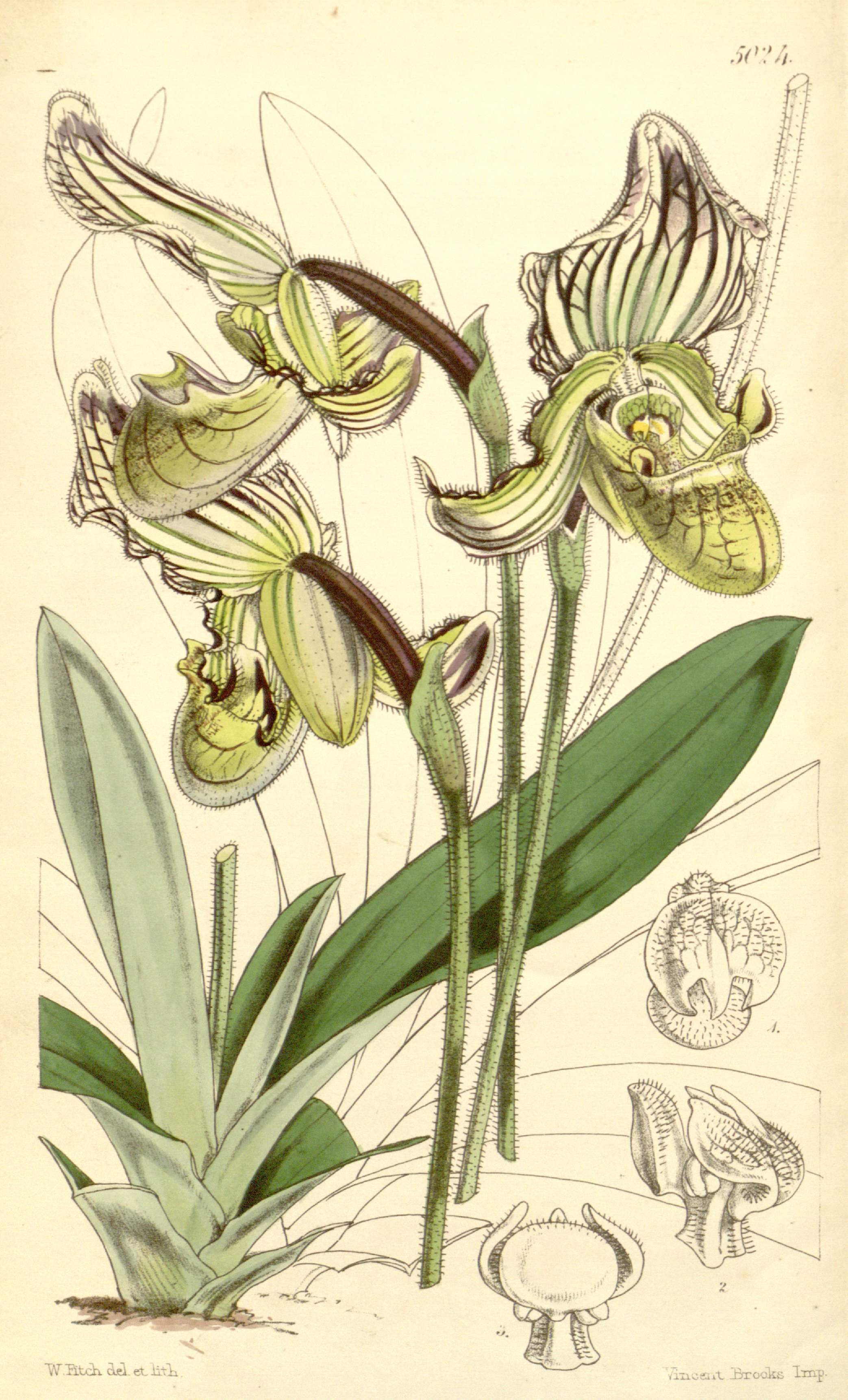 Illustration of Paphiopedilum fairrieanum (as syn. Cypripedium fairrieanum)